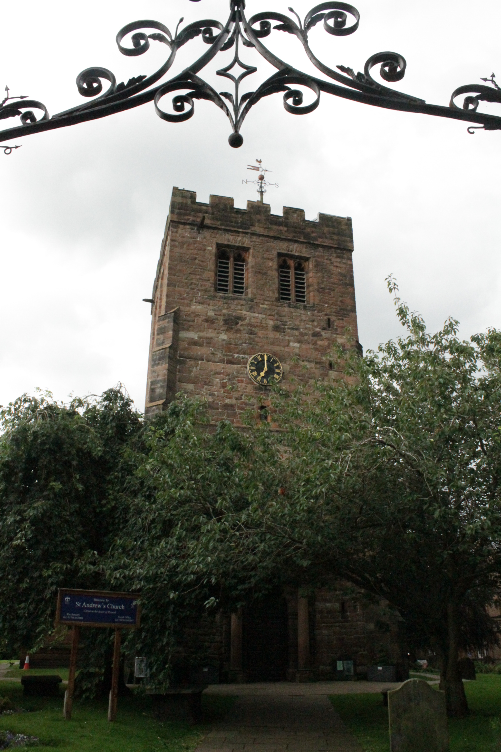 St Andrew's Church, Penrith